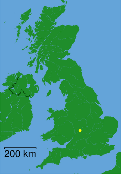 Stratford upon Avon in Great Britain, marked with a dot